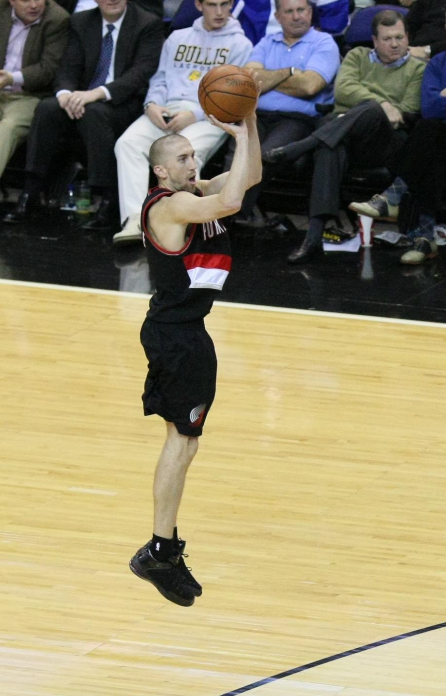 Steve Blake playing with the Portland Trail Blazers